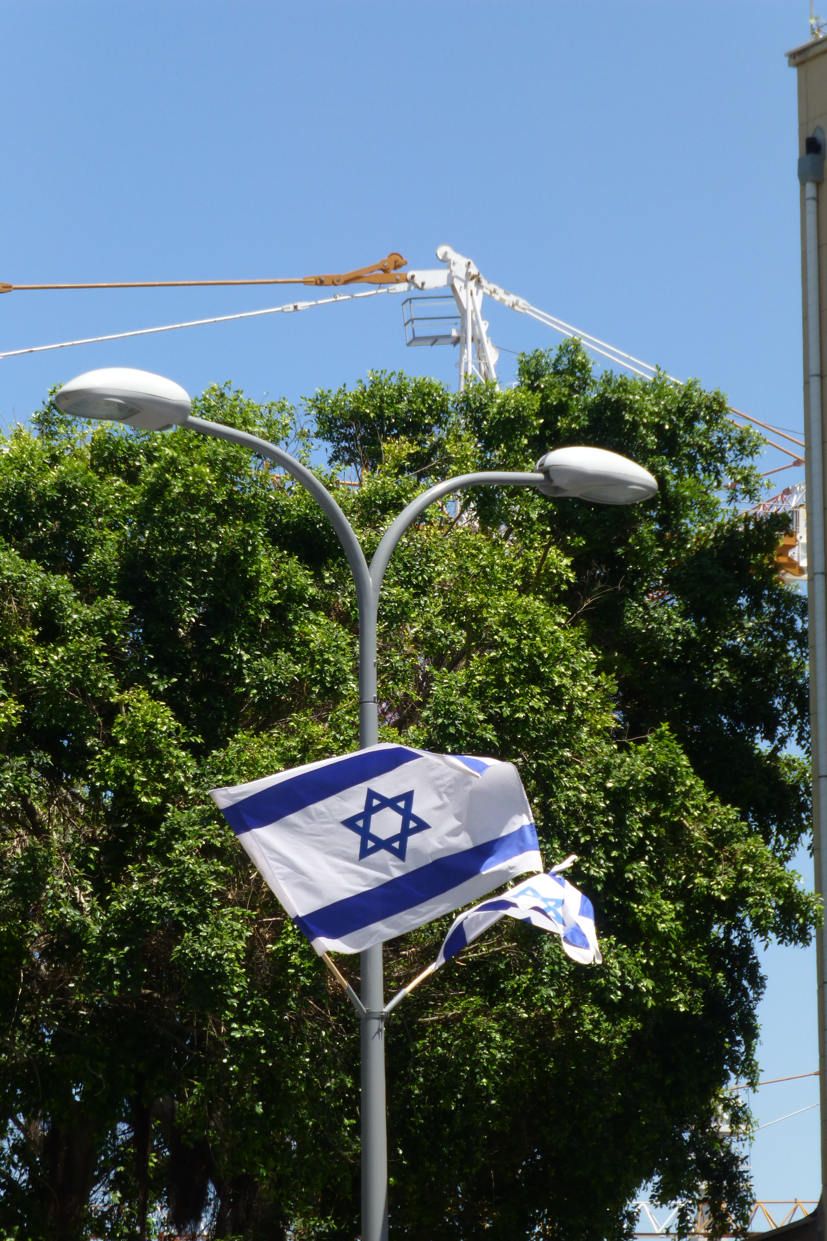 Tel Aviv-Yafo